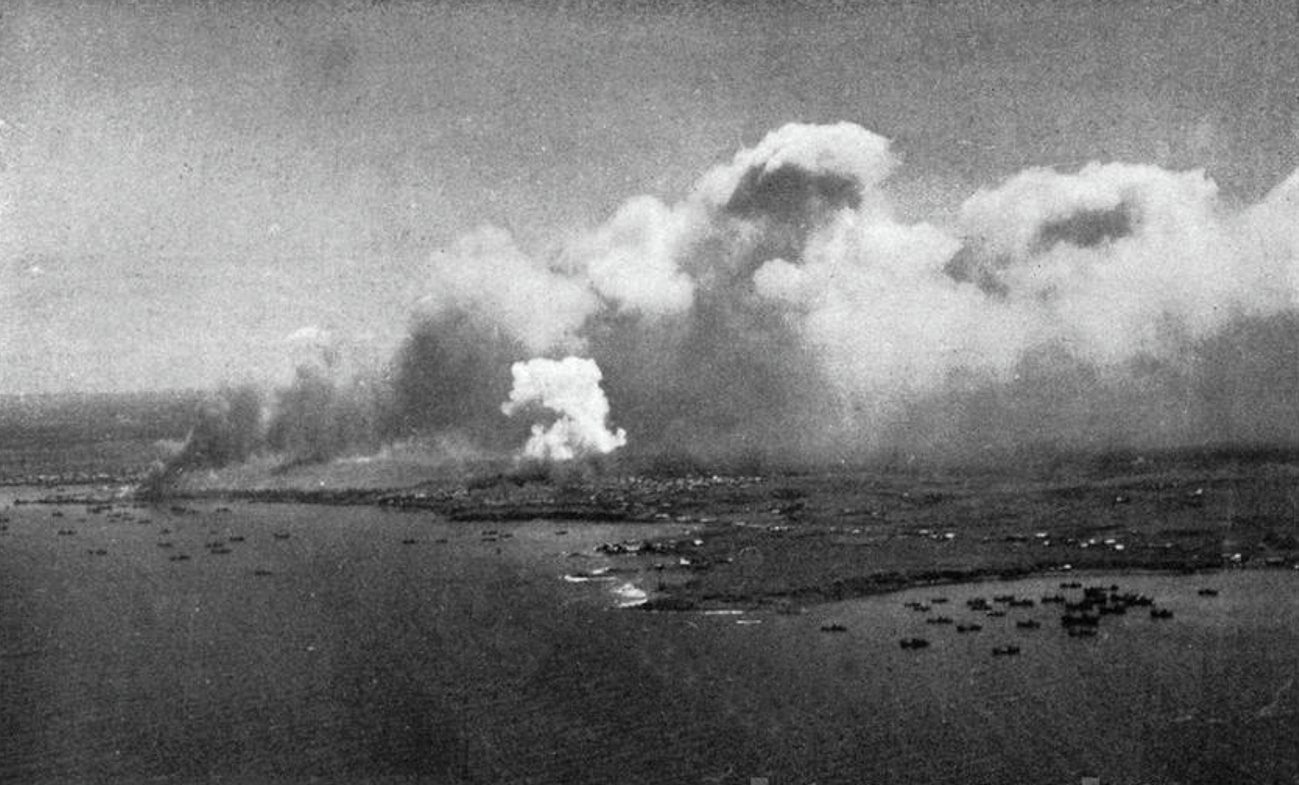 U.S. forces land on Emirau, 20 March 1944. The pre-landing bombardement proved unnecessary as it was seized unopposed by two battalions of the United States 4th Marine Division.